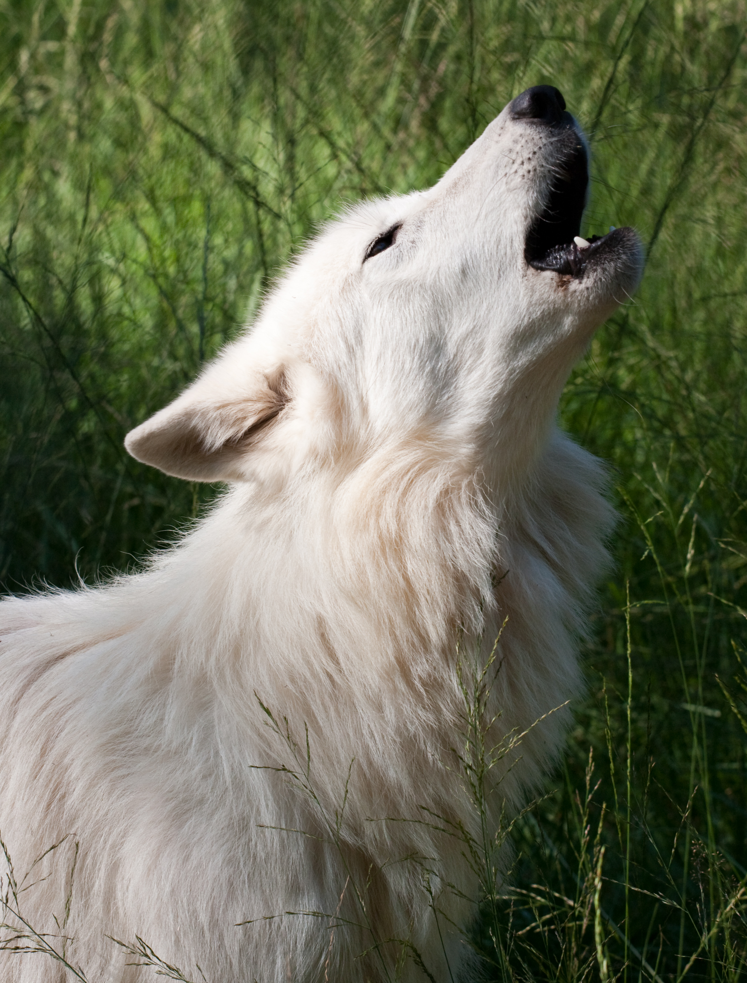 A while wolf howling in a zoo in Hainburg, Hesse.